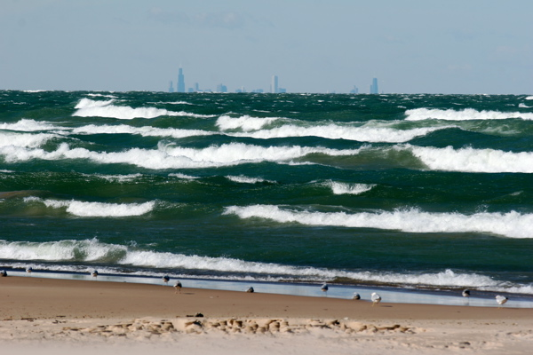 The Portage Lake Michigan shore looking across the lake to the Chicago skyline.